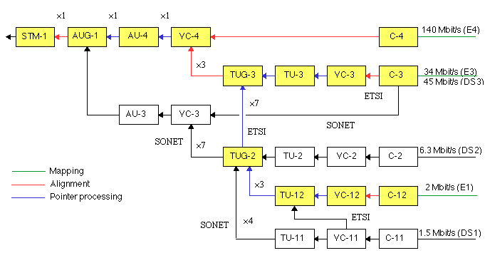 Structure of STM-1 SDH multiplexing